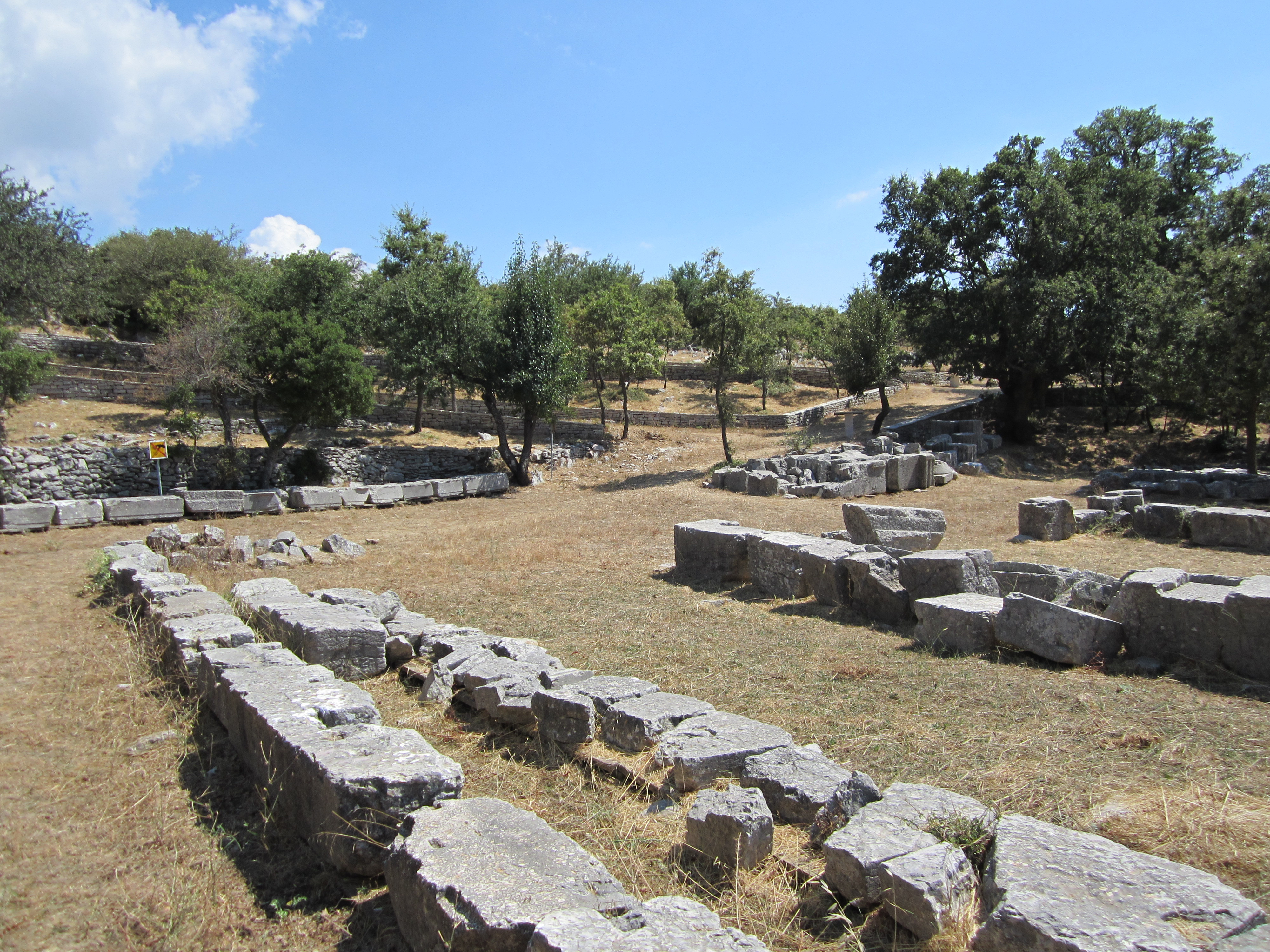 Archaeological area of Bassae (Bassai) around the Temple of Apollo Epicurius (Apollon Epikurios), Greece.